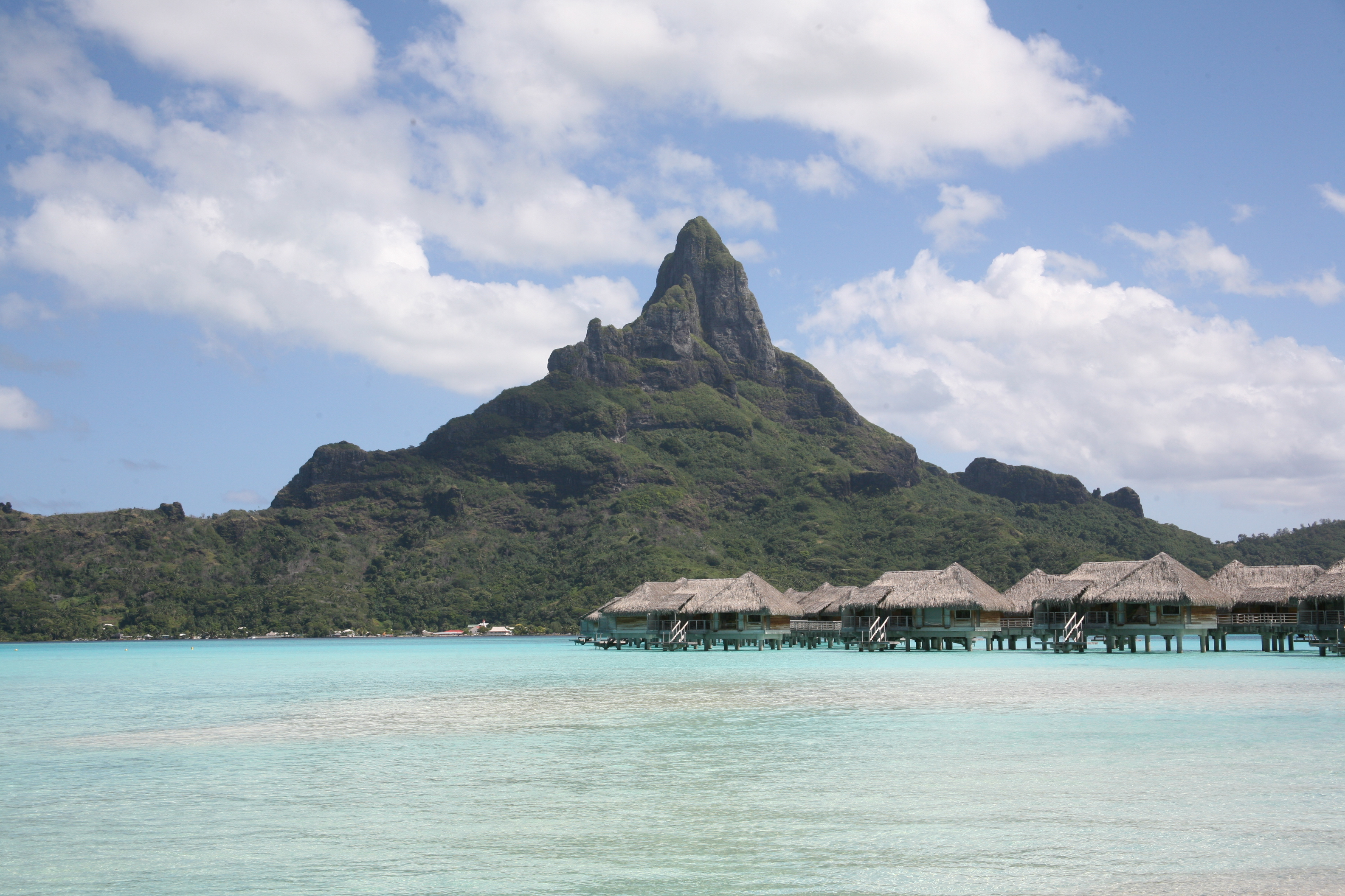 Island of Bora Bora, French Polynesia